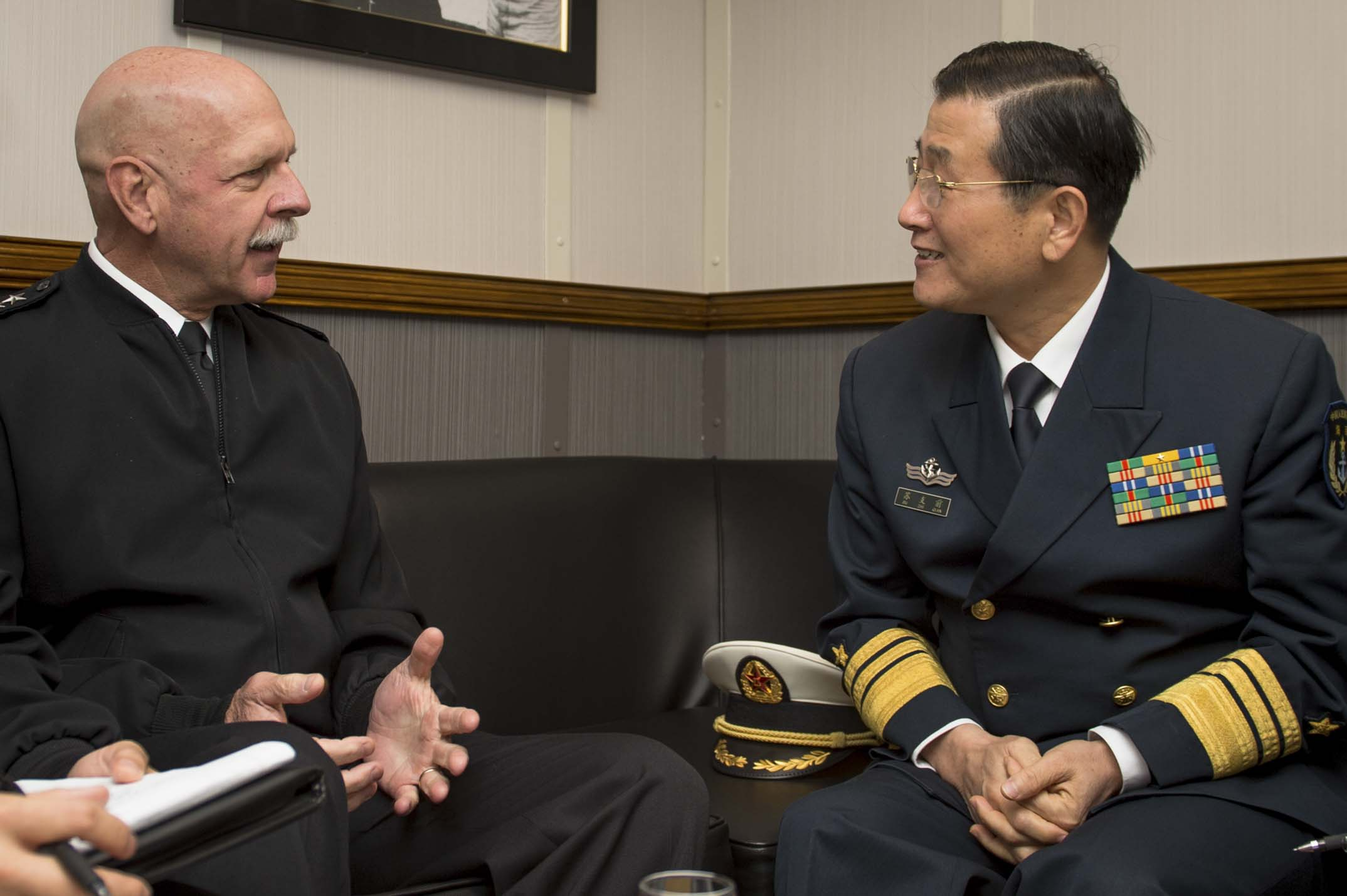 151117-N-UF697-037 SHANGHAI (Nov. 17, 2015) Adm. Scott H. Swift, commander U.S. Pacific Fleet, meets with Vice Adm. Su Zhiqian, the East Sea Fleet Commander of Chinese People’s Liberation Army (Navy), aboard the forward-deployed Arleigh Burke-class guided missile destroyer USS Stethem (DDG 63). Stethem is in Shanghai to build relationships with the PLA Navy and demonstrate the U.S. Navy’s commitment to the Indo-Asia-Pacific. (U.S. Navy photo by Mass Communication Specialist 2nd Class Kevin V. Cunningham/Released)